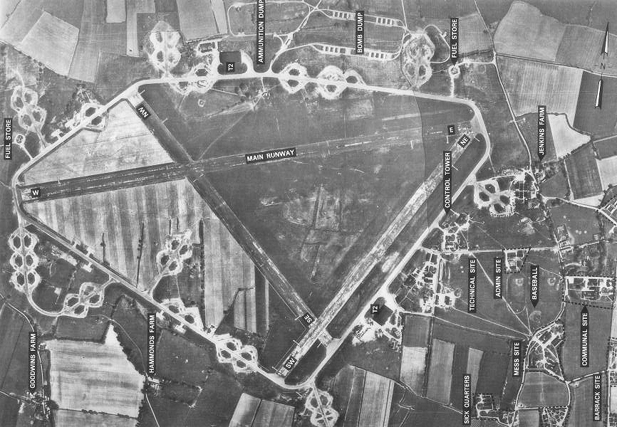 Aerial photograph of Wormingford Airfield, England. NOTE : This version is rotated to place North approximately at top. For original version with West approximately at top see File:Wormingford-10may1946-original.jpg.